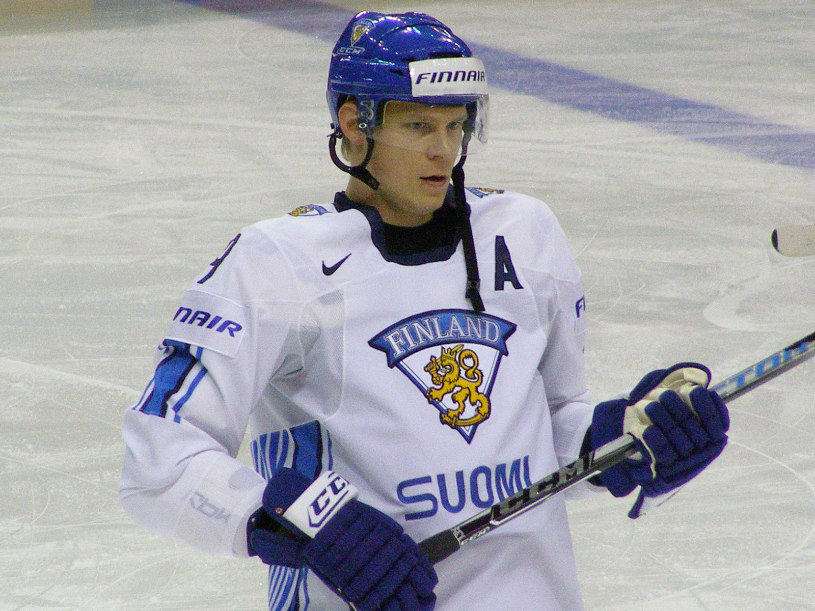 Mikko Koivu, forward for the Finland men's national ice hockey team, during a break in action against Germany men's national ice hockey team at the 2008 IIHF World Championship.